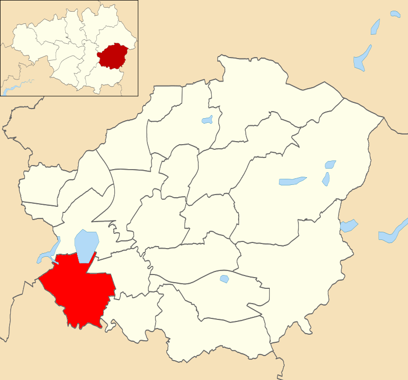 Map showing location of Denton West Ward within Tameside Metropolitan Borough Council.